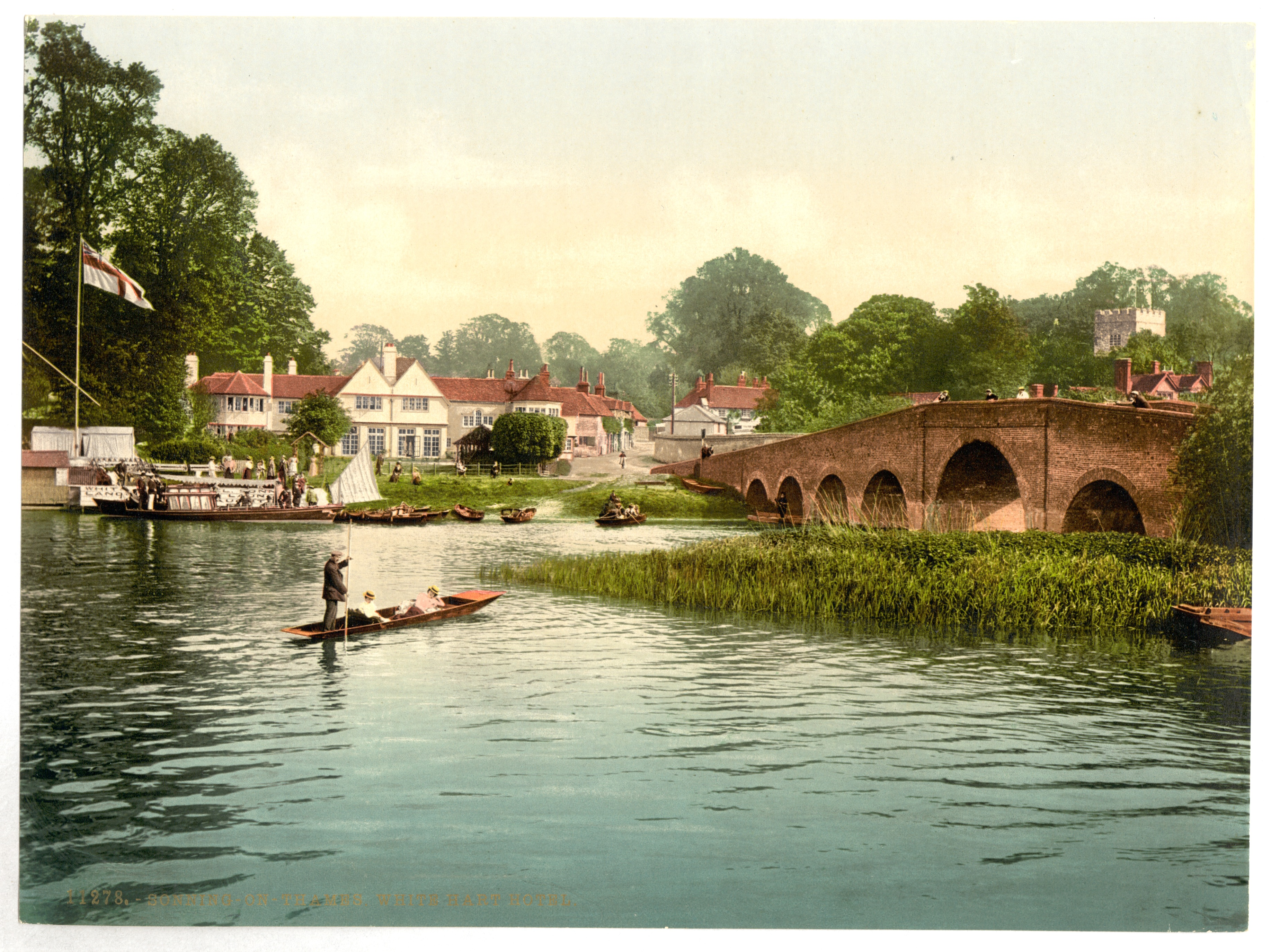 Historic view of the White Hart public house on the left and Sonning Bridge on the right on the River Thames at Sonning, Berkshire, England. Forms part of: Views of the British Isles, in the Photochrom print collection.; More information about the Photochrom Print Collection is available at Title from the Detroit Publishing Co., Catalogue J-foreign section, Detroit, Mich. : Detroit Publishing Company, 1905.; Print no. "11278".